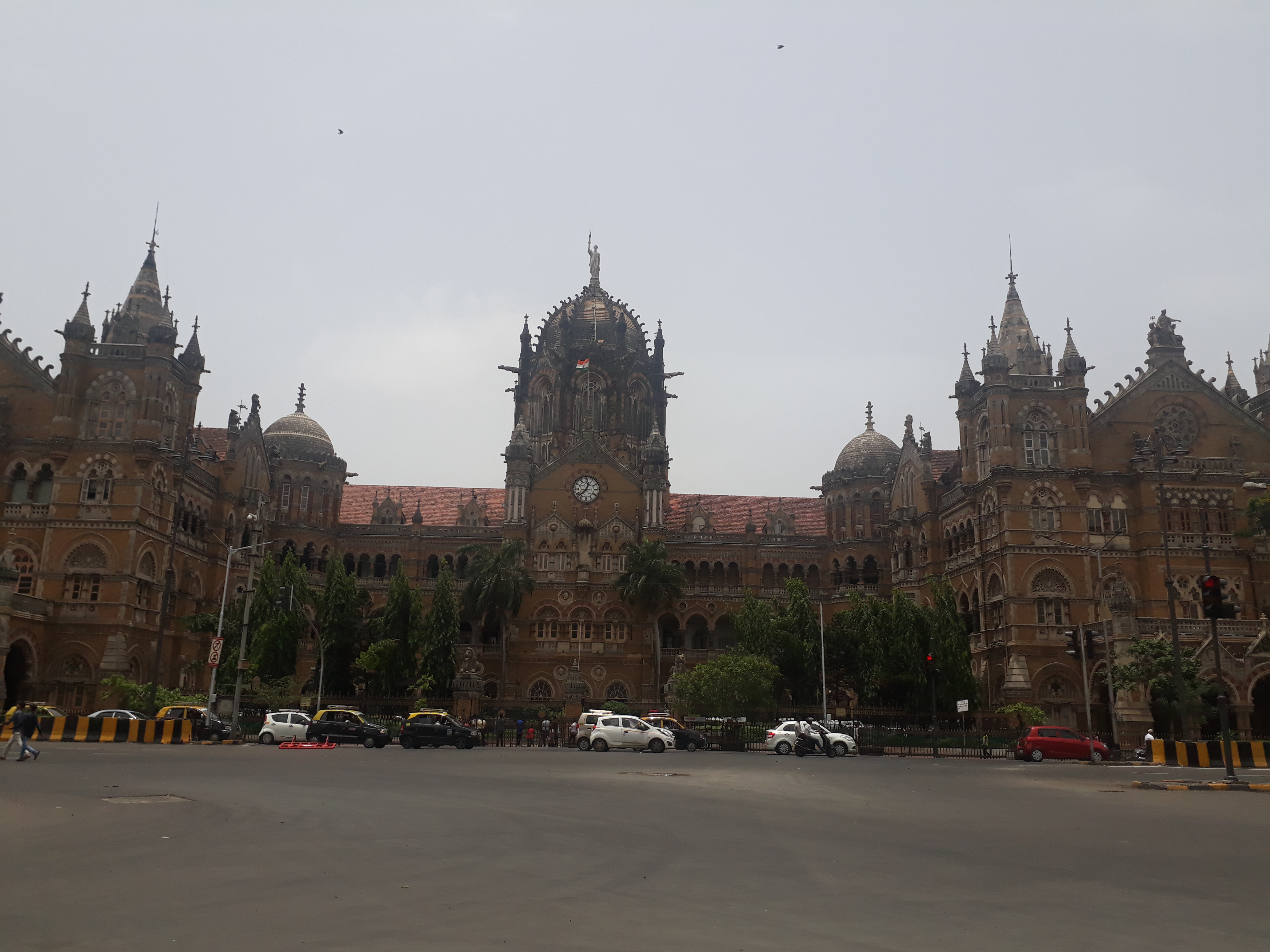 Chhatrapati Shivaji Railway Terminus (formerly known as Victoria Terminus) in Mumbai, A world UNESCO heritage